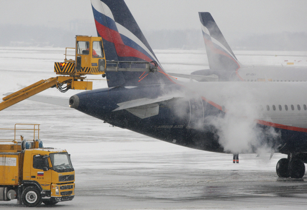 “Aeroflot Airbus A-321 at Sheremetyevo”. Aeroflot Airbus A-321 at Sheremetyevo international airport.